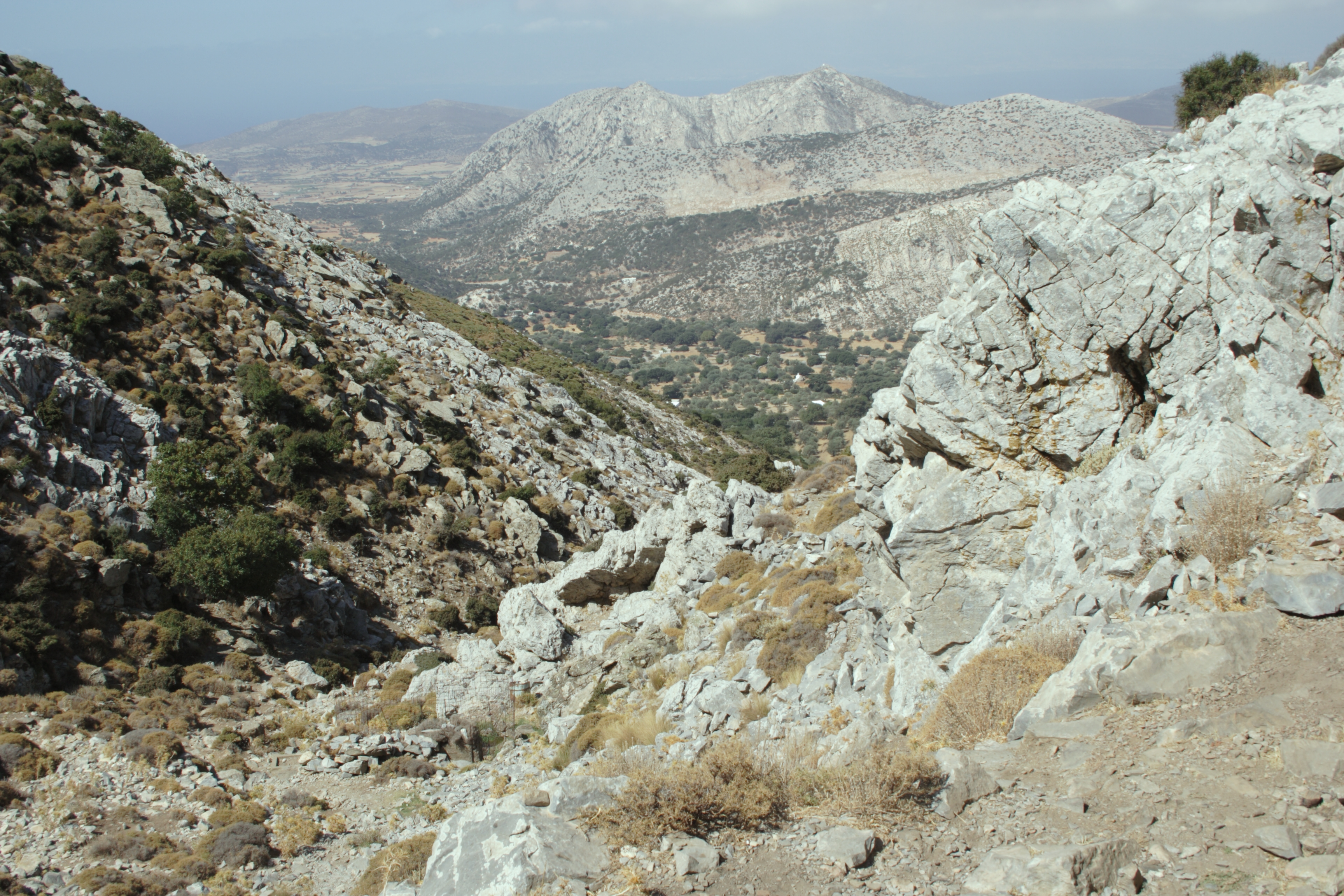 View from the vicinity of the cave of zas on Naxos.